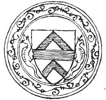 1611 Drawing by Nicholas Charles, Lancaster Herald, of seal of Robert FitzWalter appended to Barons' Letter 1301 (A Exemplar)